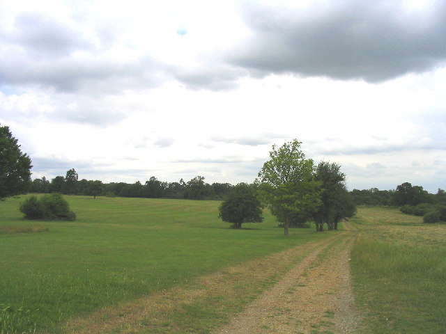 Dagnam Park, Harold Hill, London Borough of Havering. This urban park was once part of the 'Dagnams' country estate - the house was hit by a V2 rocket at end of 2nd World War and later demolished after the L.C.C. had bought the whole estate for £60,000. Now just the parkland is left.